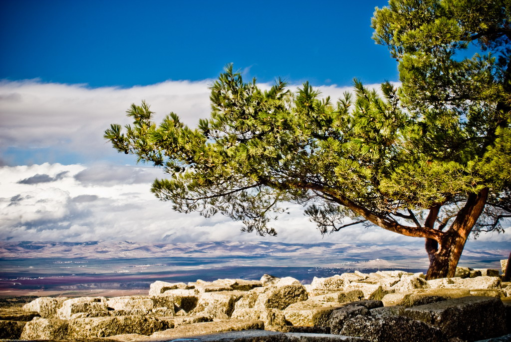 Pinus brutia — and view from monastery of Semen Stolbnik on top of a mountain near Aleppo, Syria. Editing in Lightroom.